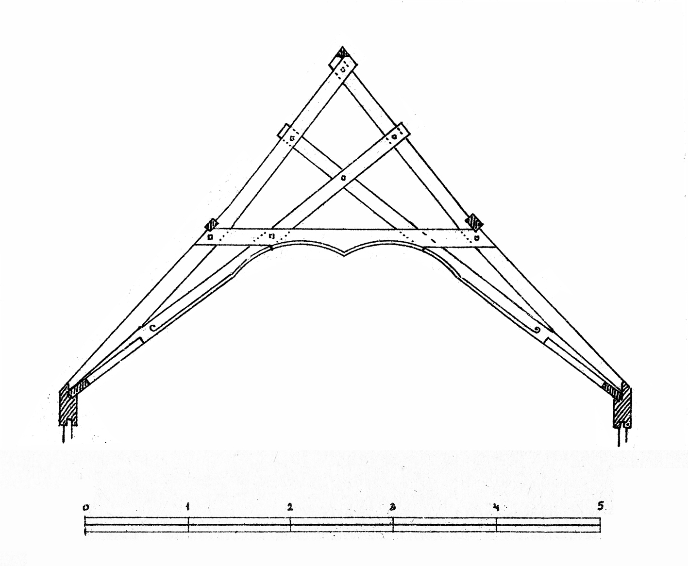 Roof truss of Eidsborg stave church, c. 1250. Scanned from Nicolaysen, N.: Kunst og Haandverk fra Norges Fortid, Kristiania 1894-99. Measurede drawing by architect Johan Meyer (1860-1940).